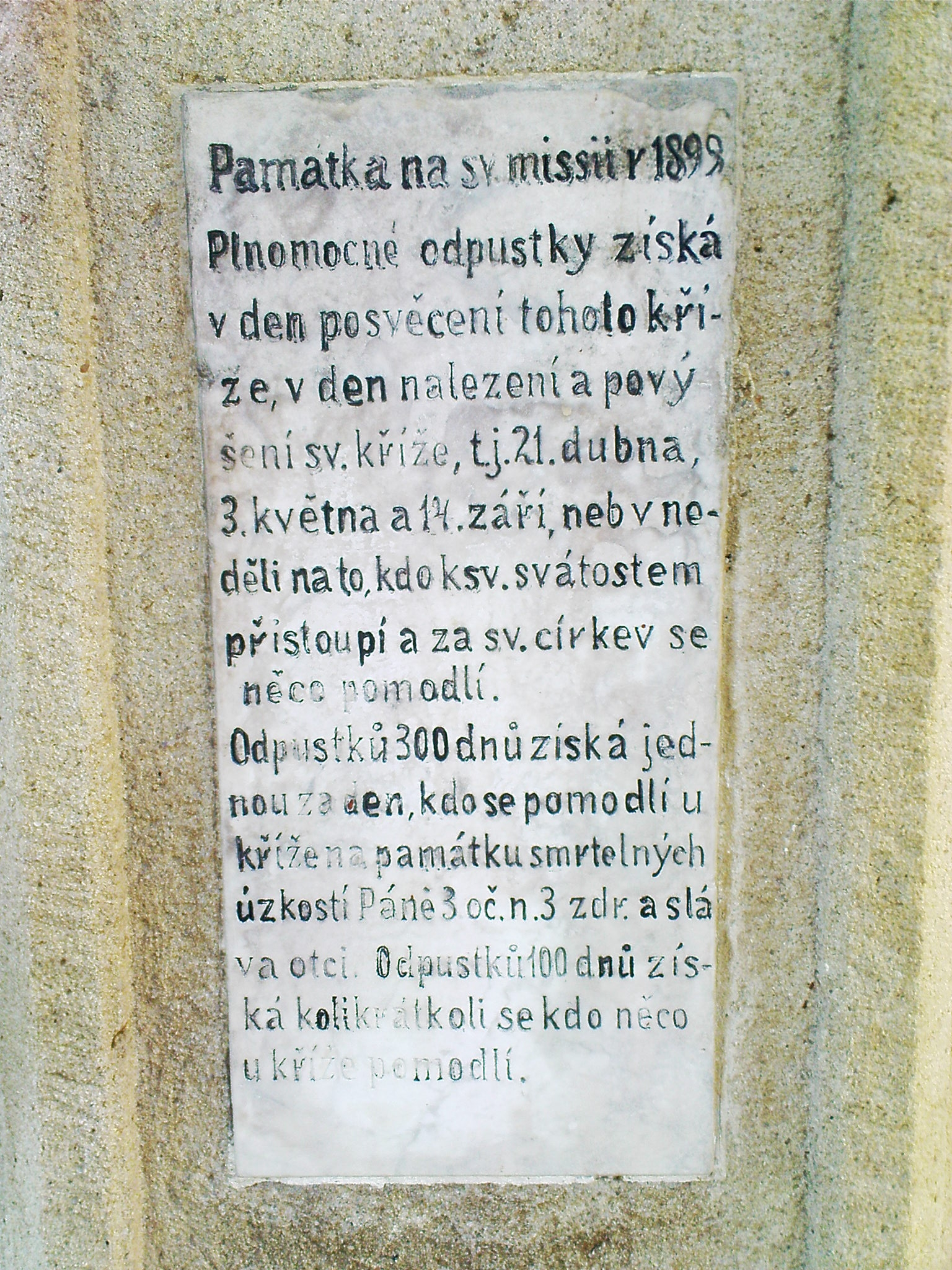 Writing on the back side of a sandstone cross in Záhlinice (Kroměříž District, Czech Republic) saying how is it possible to gain 100-300 days of indulgence.